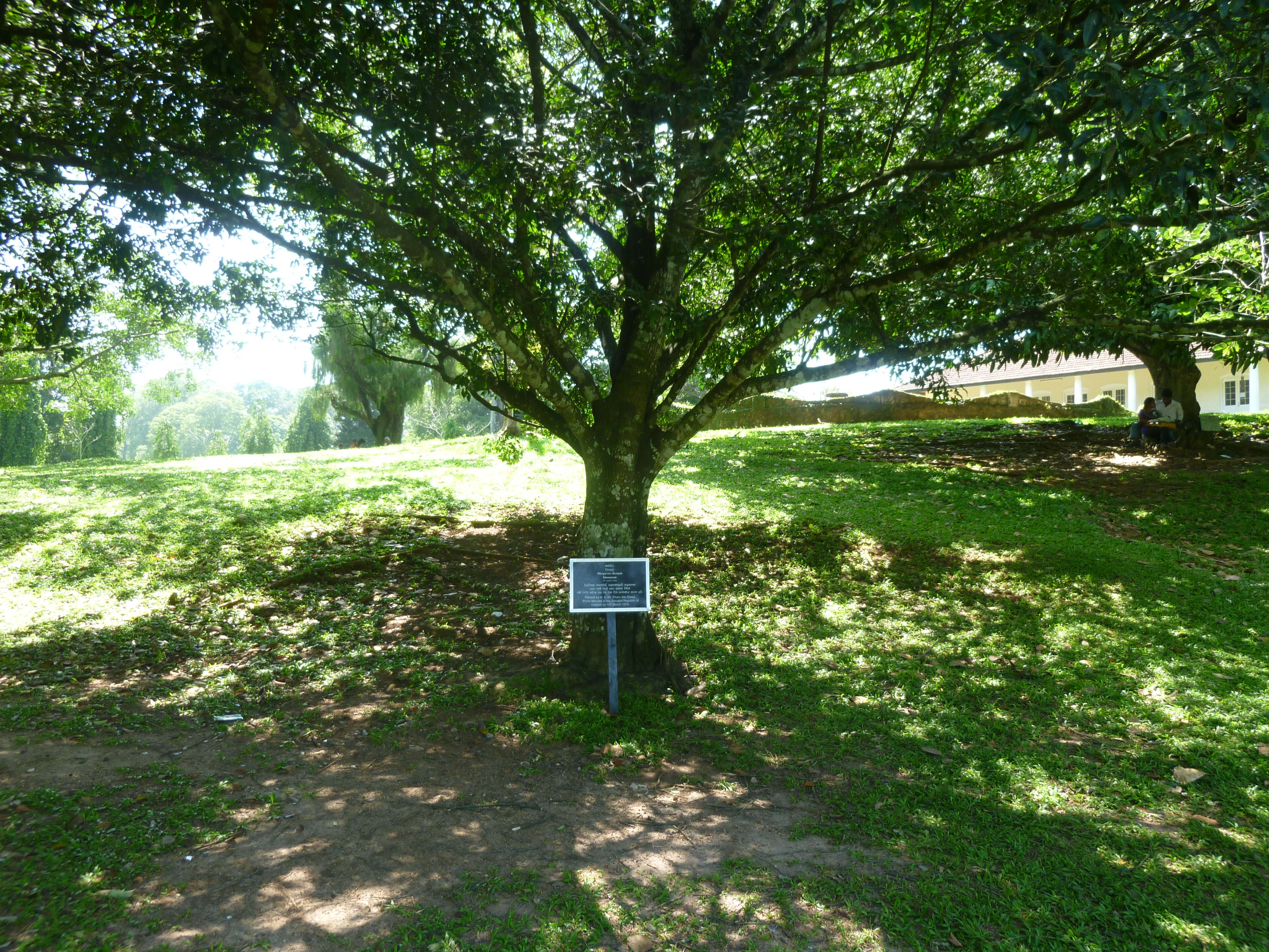 An Ebony / Diospyros Ebenum - Ebenaceae tree seen in Memorial Trees section at Royal Botanical Gardens Peradeniya, Sri Lanka.